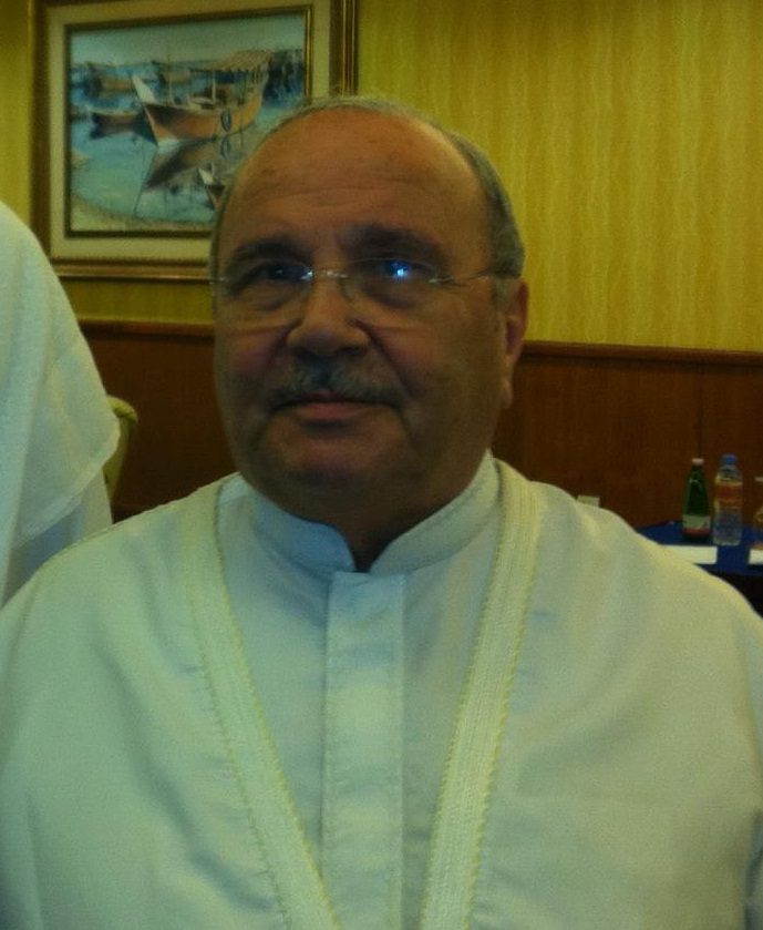 Ratib Al-Nabulsi